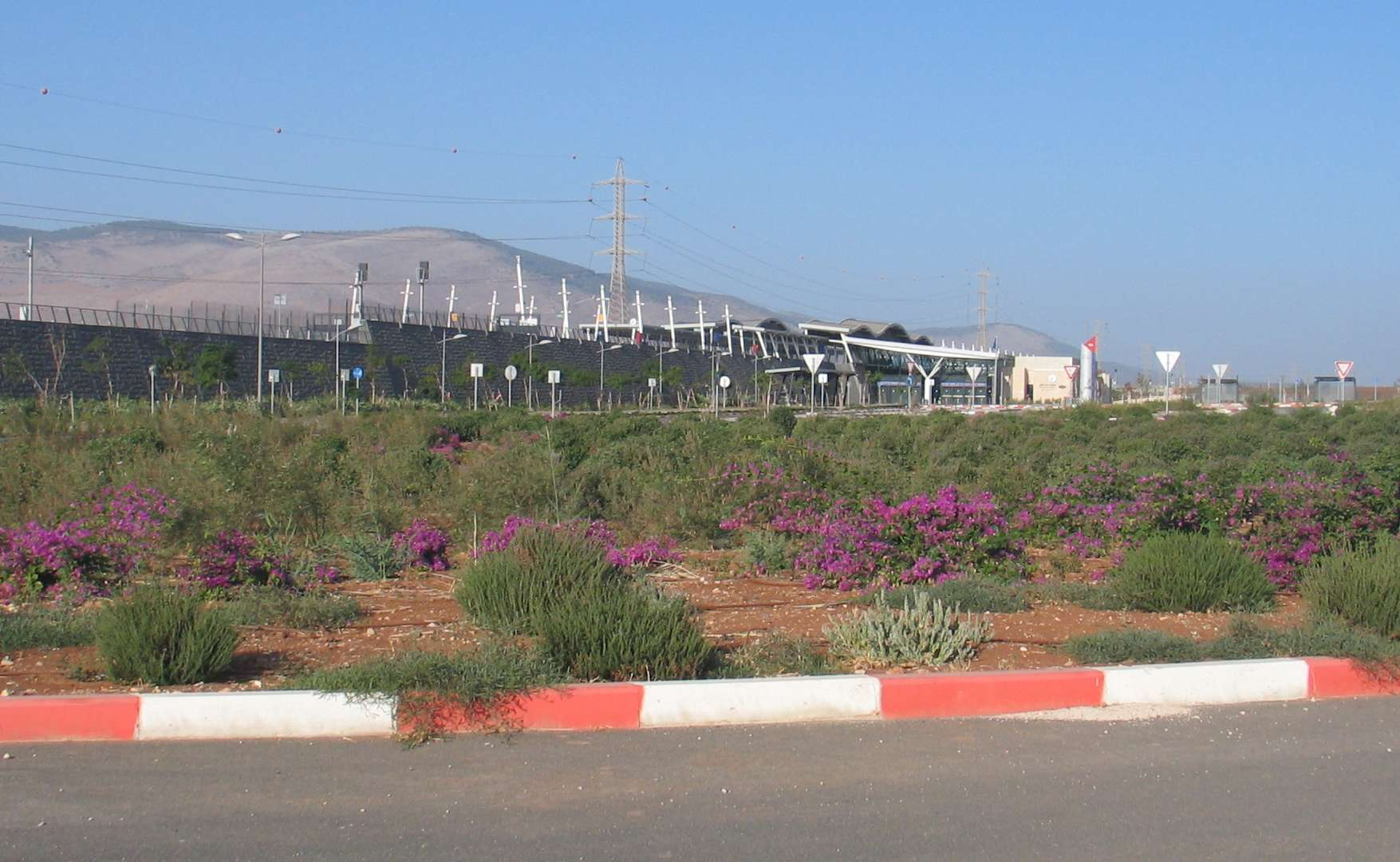 New railway station in Beit Shean, Israel.